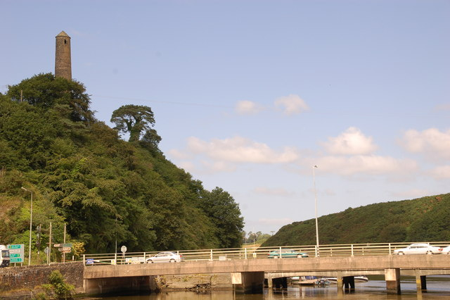 War memorial, Ferrycarrig, Wexford. This is the memorial to the men of Wexford who died in the Crimean War. It was built in the style of a round tower, in 1858. The bridge carries the Dublin-Wexford road across the River Slaney at Ferrycarrig.